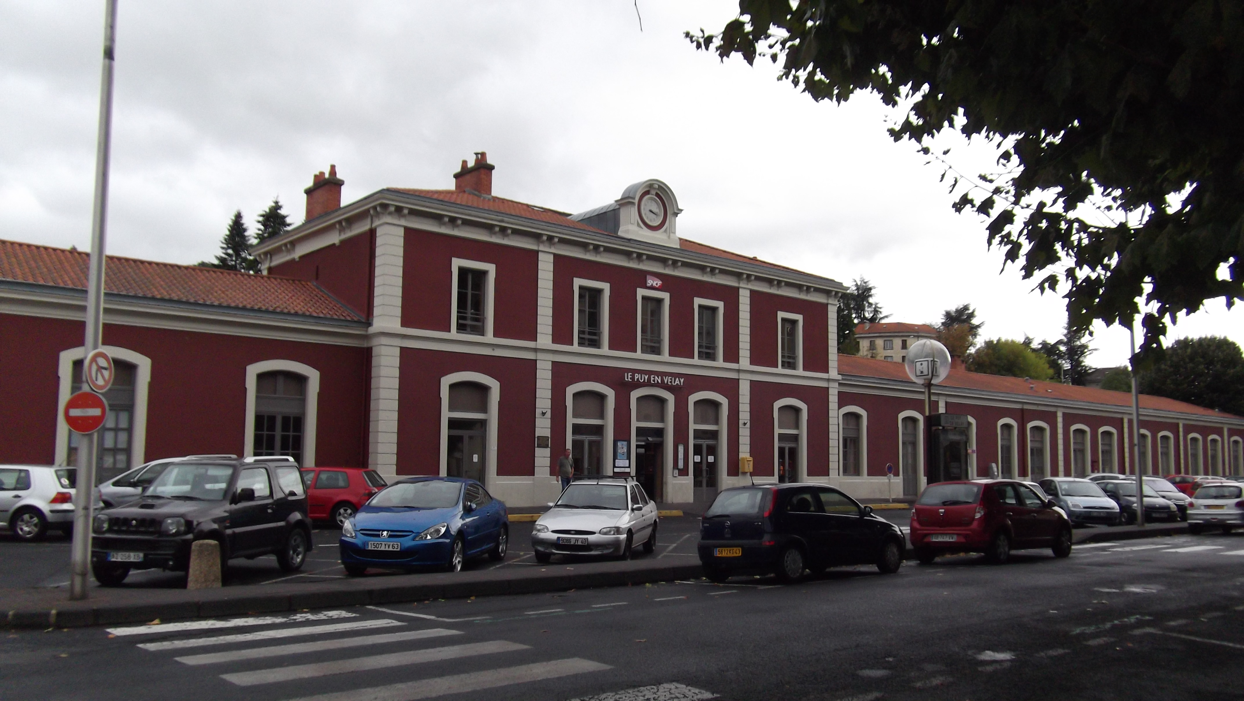 Train Station of Puy-en-Velay